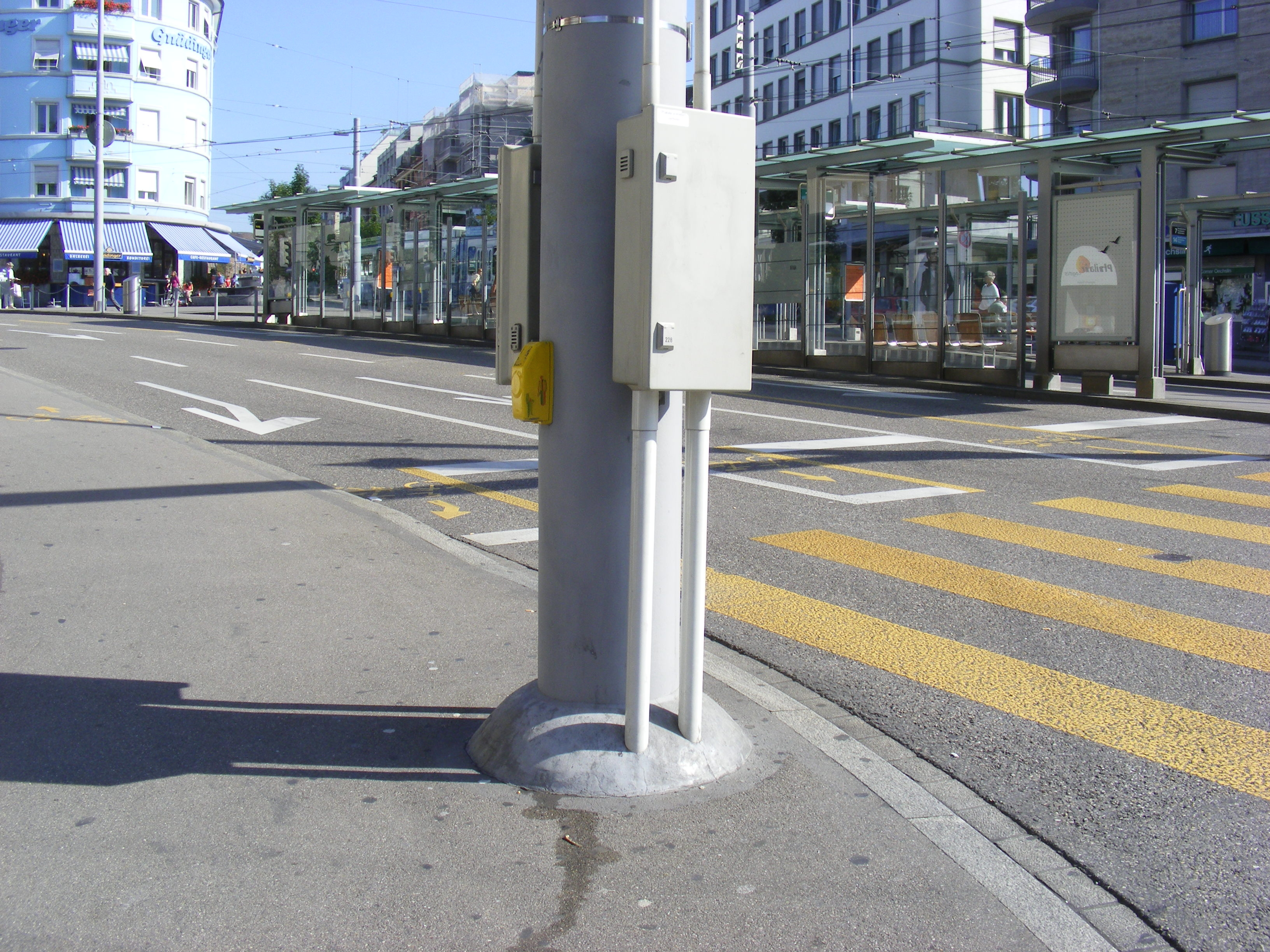 Zurich (CH): Cycling sharrows in three bikeboxes (separate for turns & streight) and for counterflow on the sidewalk